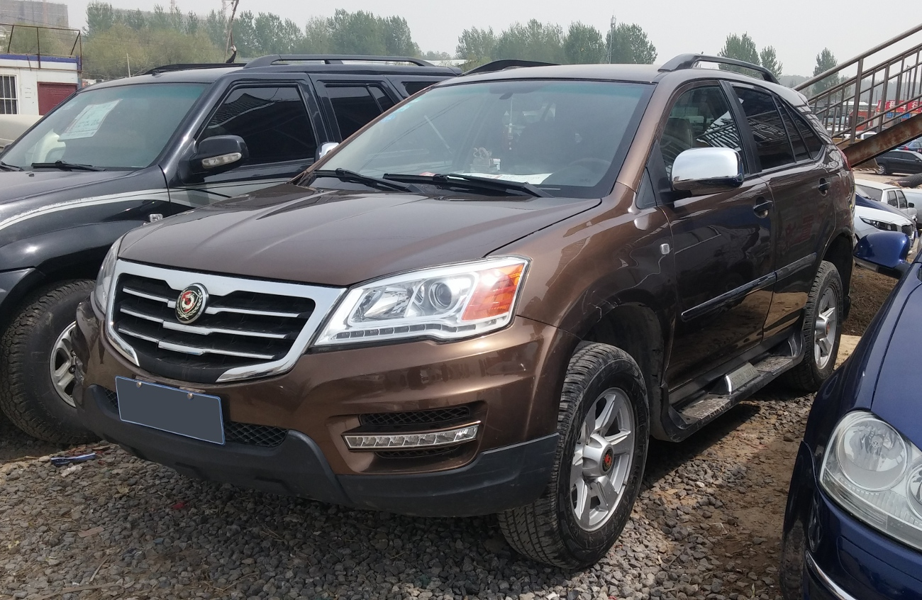 Xinkai Victory HXK6480 photographed in Zhengzhou, Henan province, China.